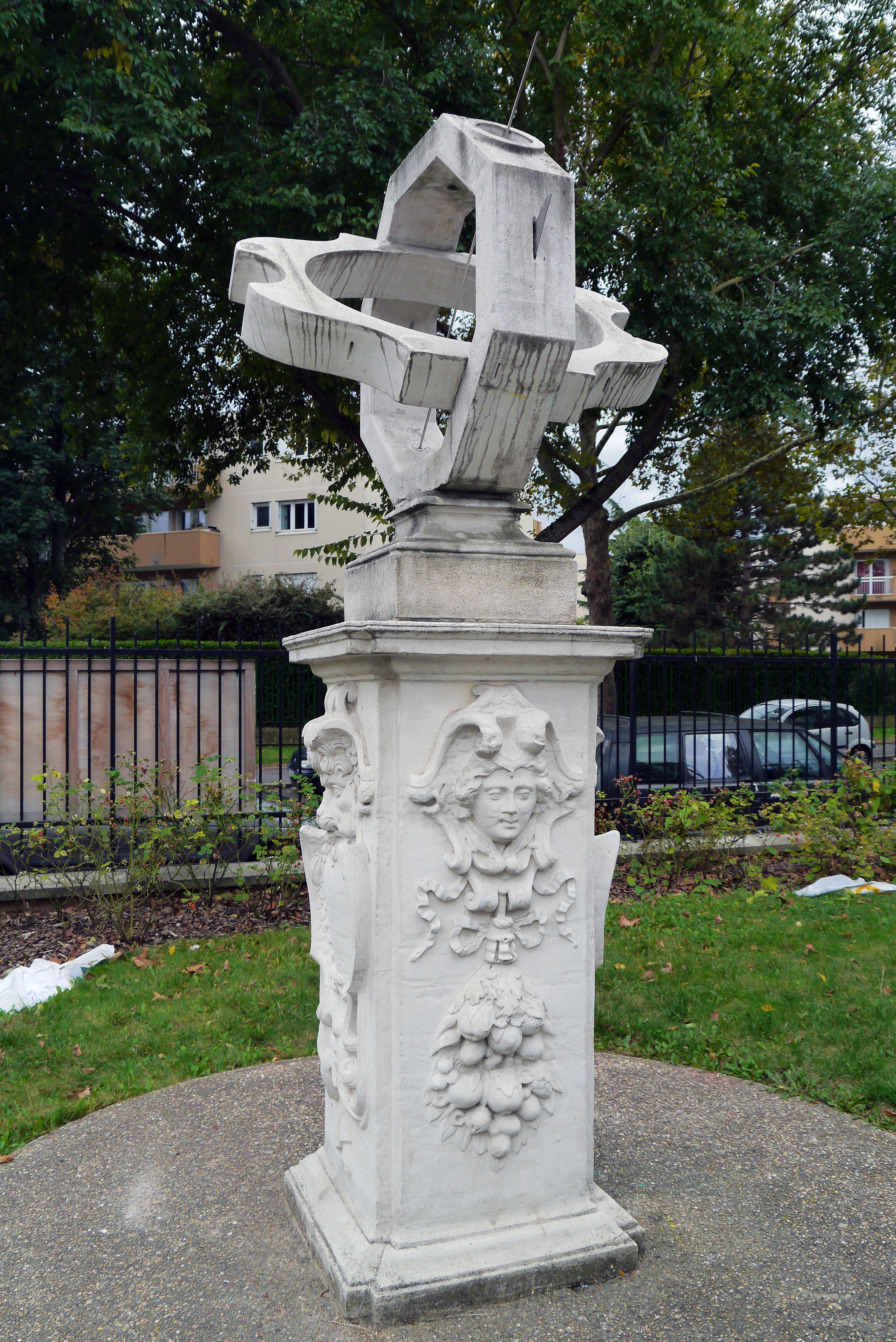 Sundial of Bagneux, Hauts-de-Seine. Copy in jardins de la Maison des Arts. Original is located inside the médiathèque Louis Aragon.